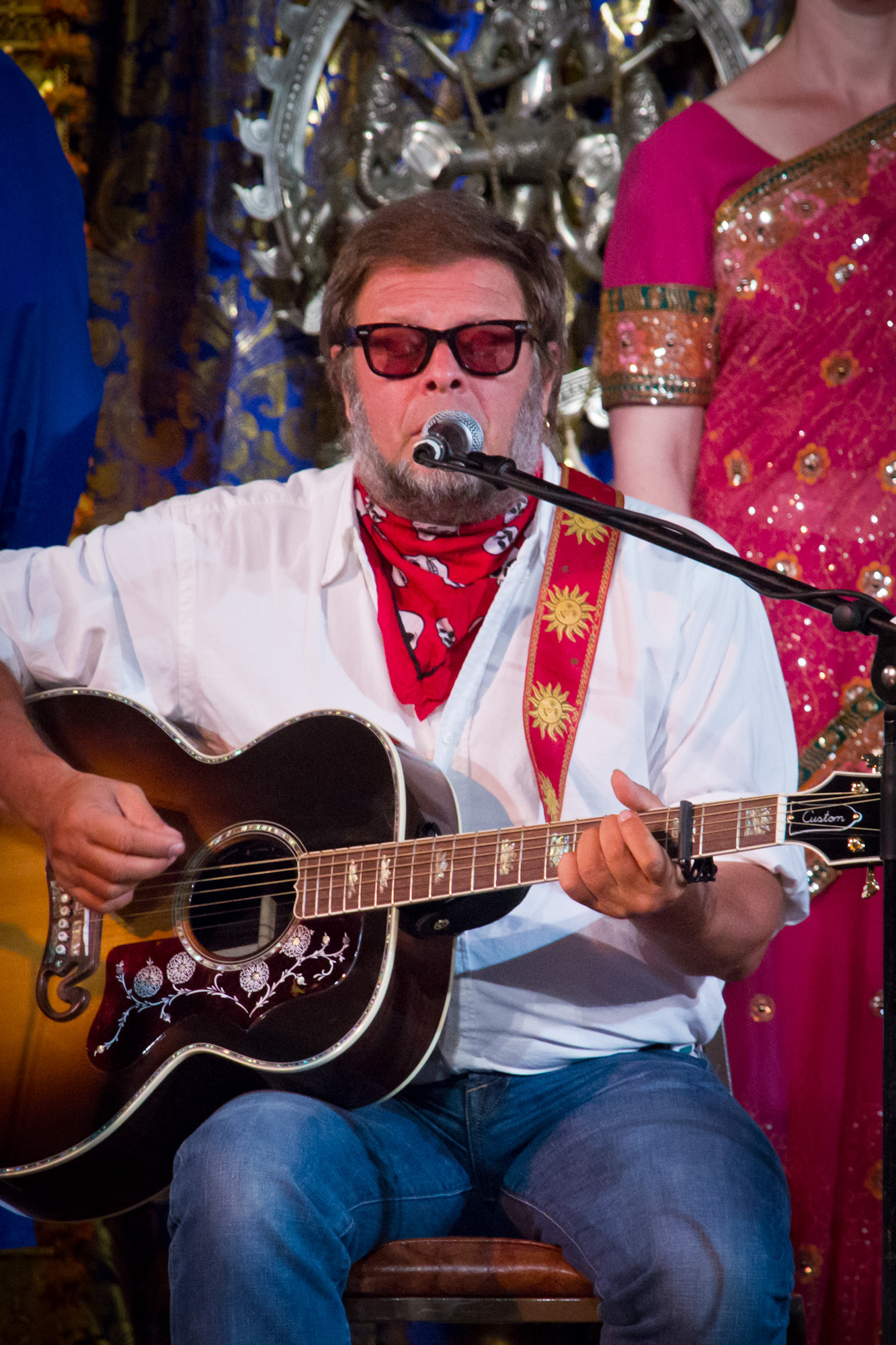 Boris Purushottama Grebenshikov performs at the Songs of the Soul Concert, August 25, 2012, New York